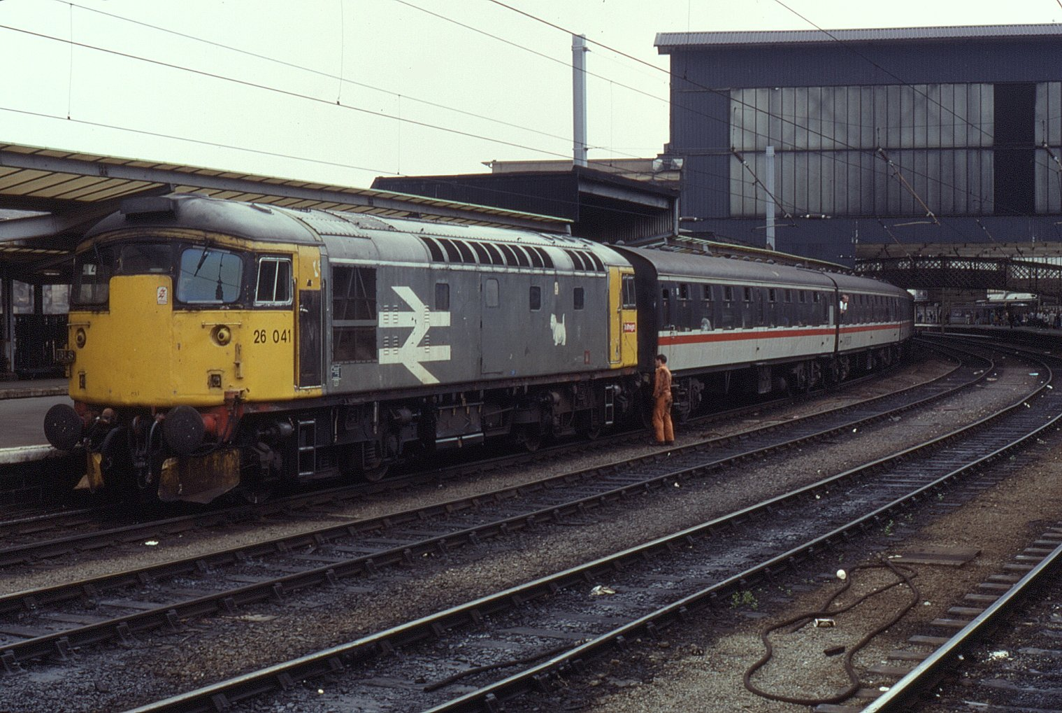 The Branch Line Society's "Northern Explorer" ran from Crewe through to Maxwelltown in amongst other freight branches on 3 August 1991. Seen here is 26041 in Railfreight livery which backed onto the rear of the train here at Carlisle with 31312 leading.